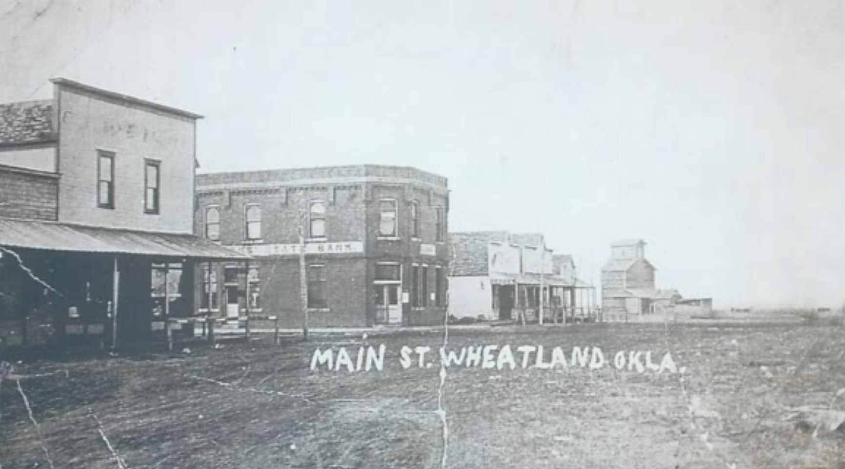 A black and white photo of rural Wheatland in 1889. Written on the photo in white is "Main St. Wheatland Okla."